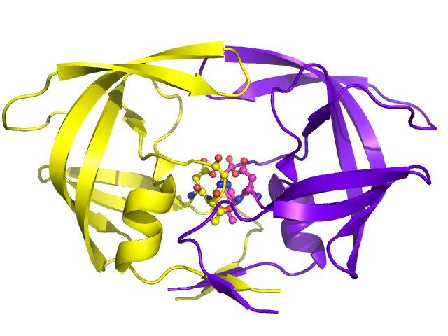 Cartoon structure of HIV enzyme